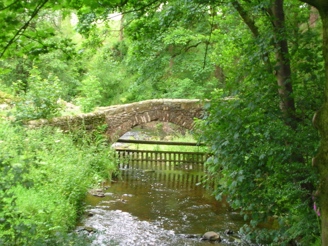 Packhorse bridge at Brooks Farm, Bleasdale, Lancashire